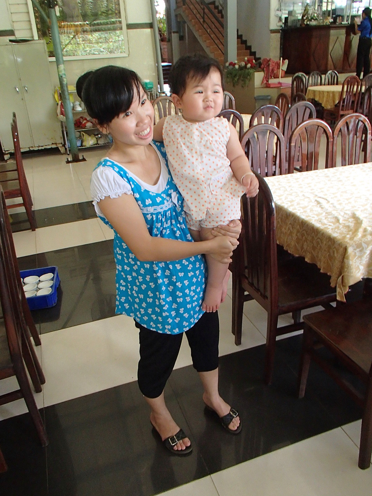 Pregnant woman with a child Vietnam